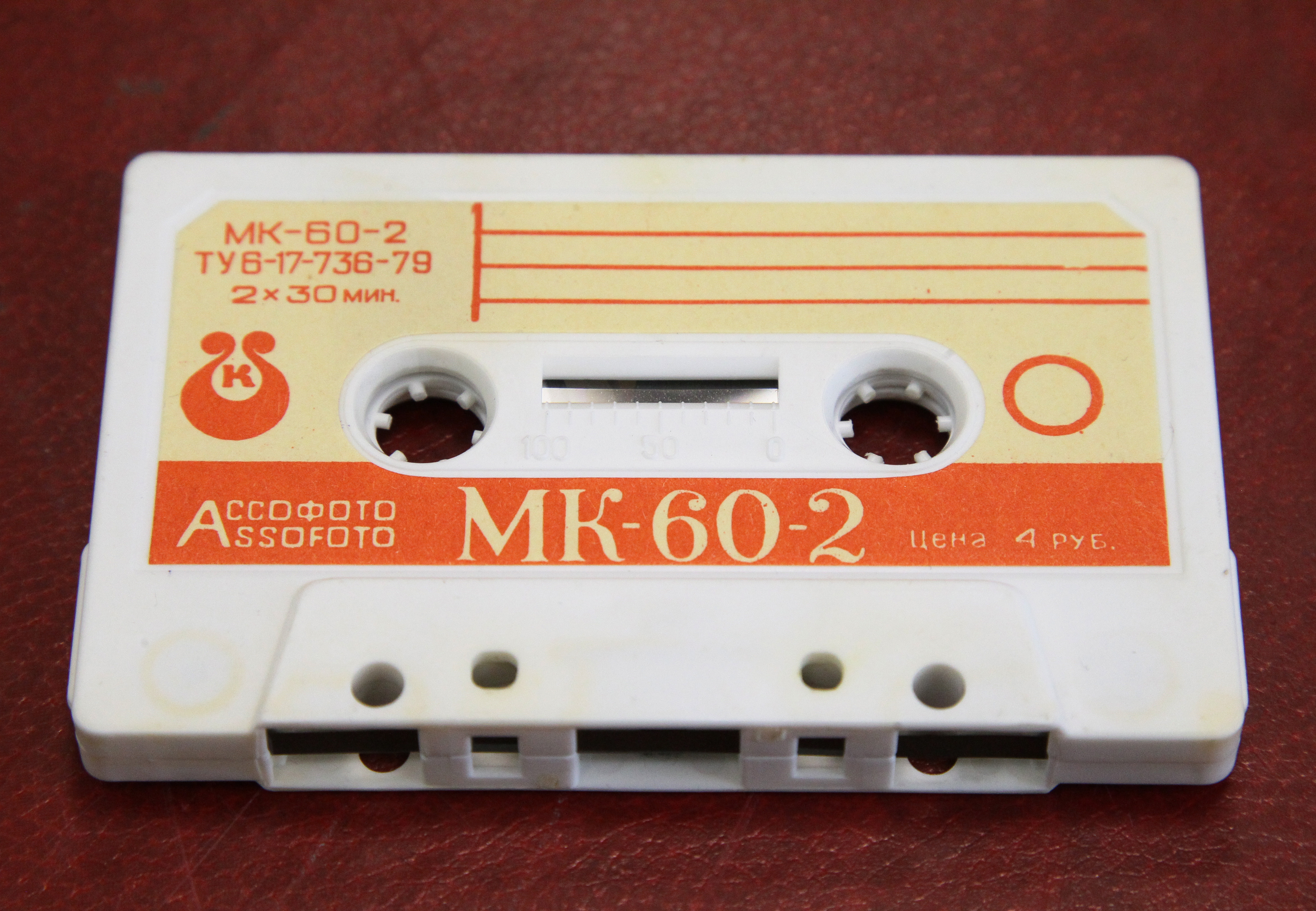 Soviet Compact-cassette MK-60-2 by 'Assofoto' (Kazan')